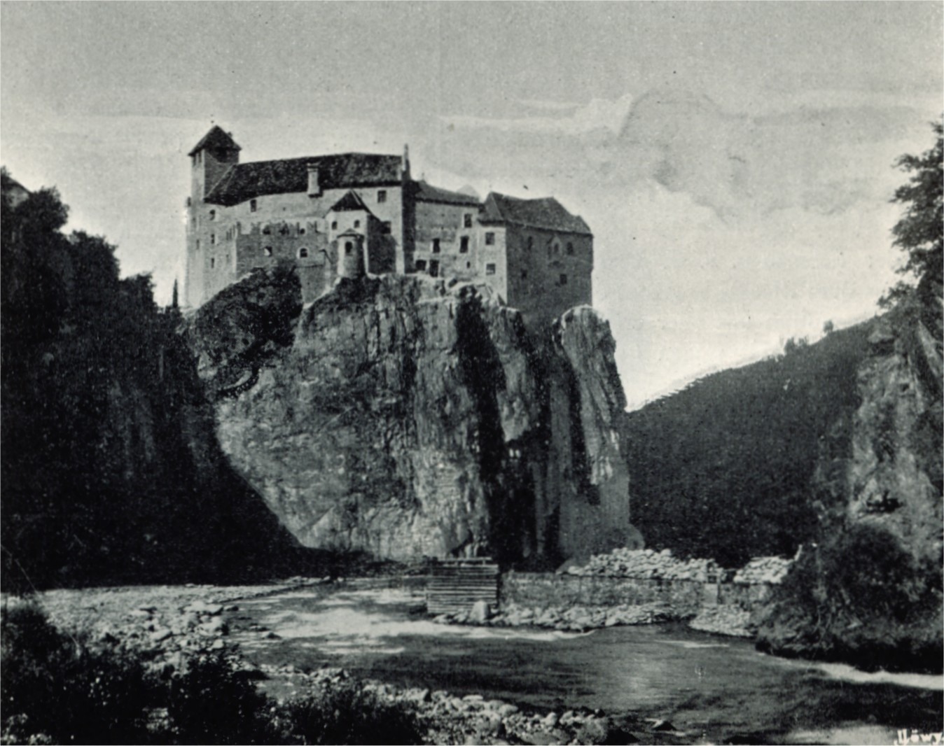 Castle Runkelstein in South Tyrol around 1898